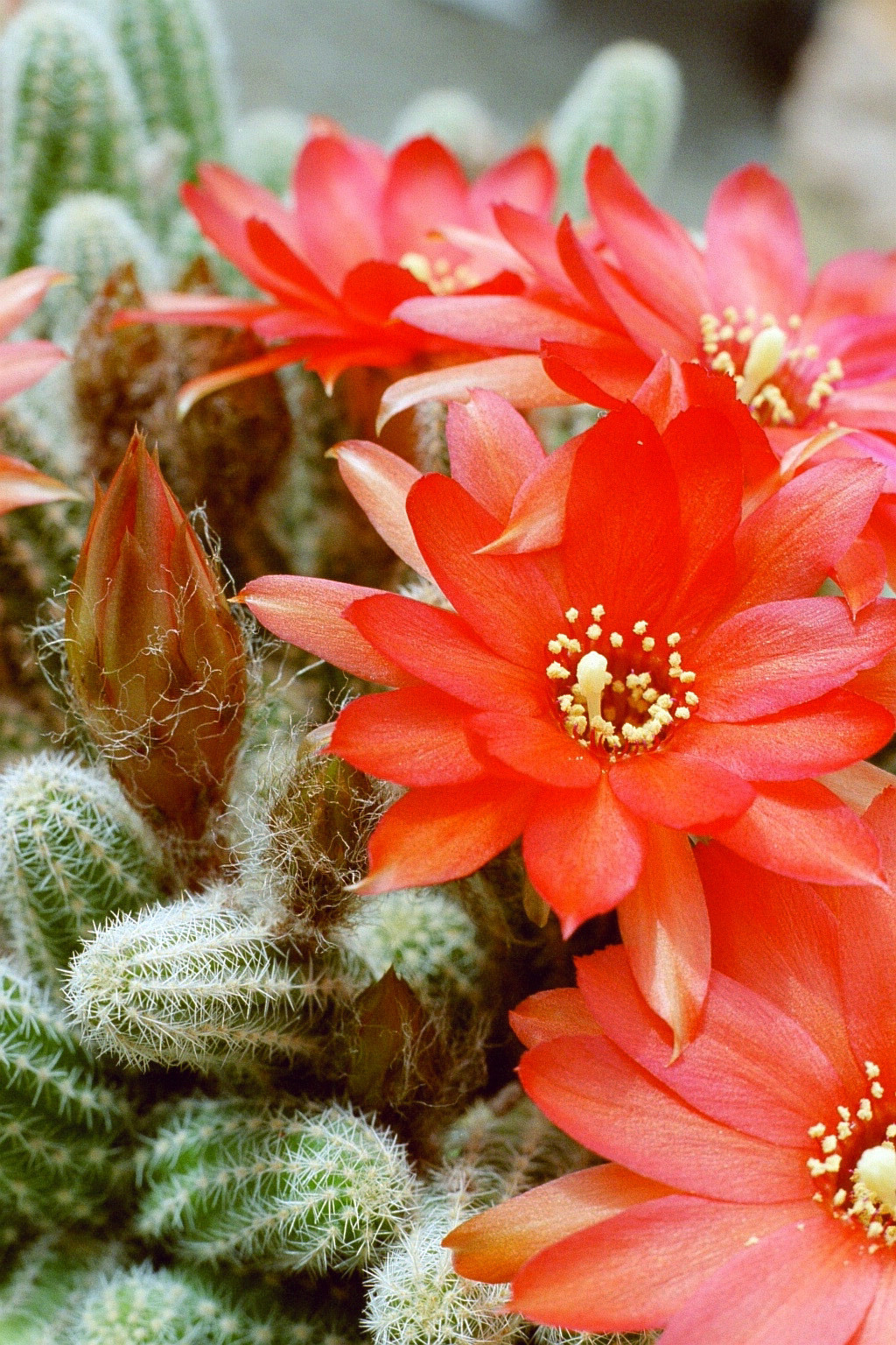 Echinopsis chamaecereus